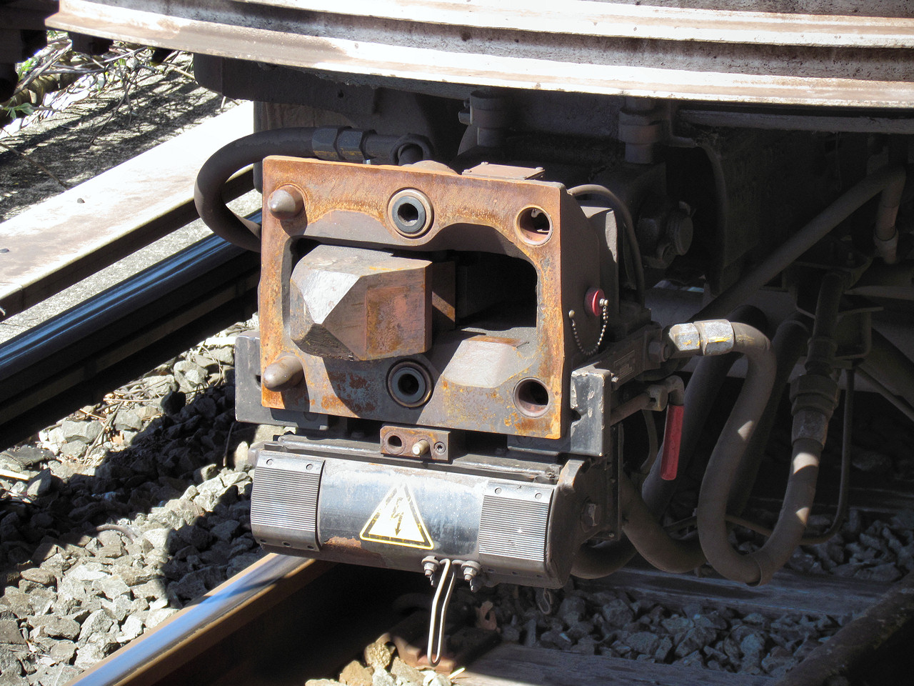 Tomlinson style railway coupling as applied to New York City Subway R46 subway car #6006.